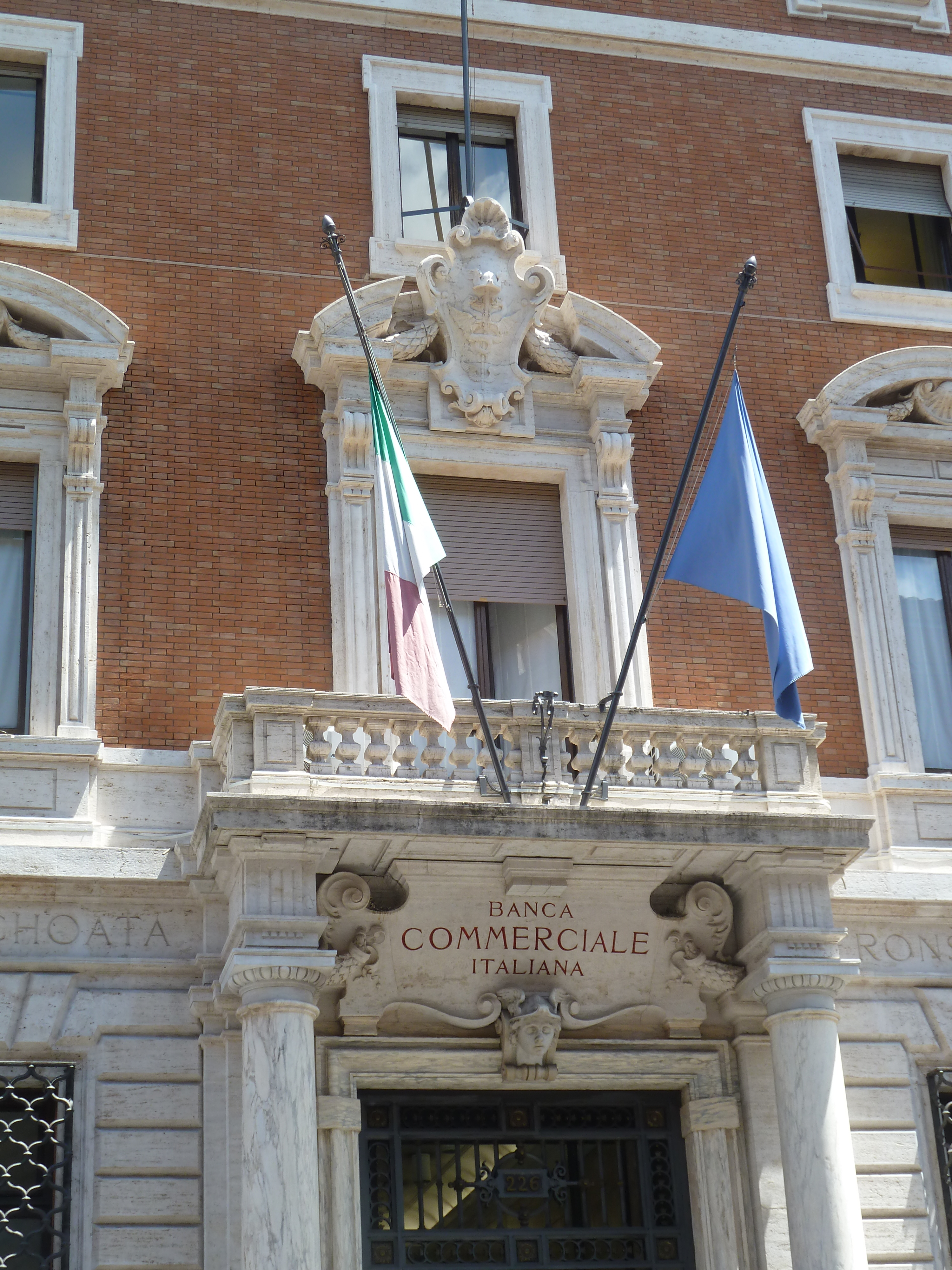 Banca Commerciale Italiana, Via Corsa, Roma, Italia. July, 2014